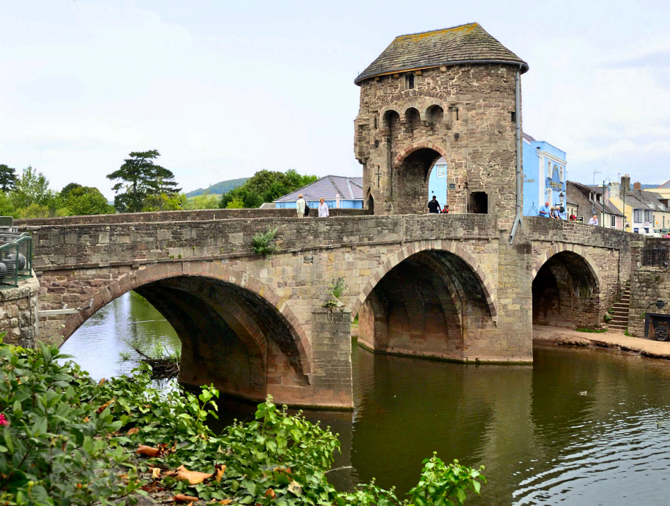 Monnow Bridge is a medieval bridge over the namesake river Monnow in the town of Monmouth, Wales. The existing bridge was completed in the late 13th century. It is the only remaining medieval fortified bridge in Britain.